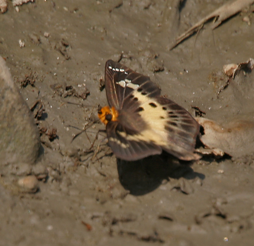 Common Yellow-breasted Flat Gerosis bhagava at Jayanti in Buxa Tiger Reserve in Jalpaiguri district of West Bengal, India.